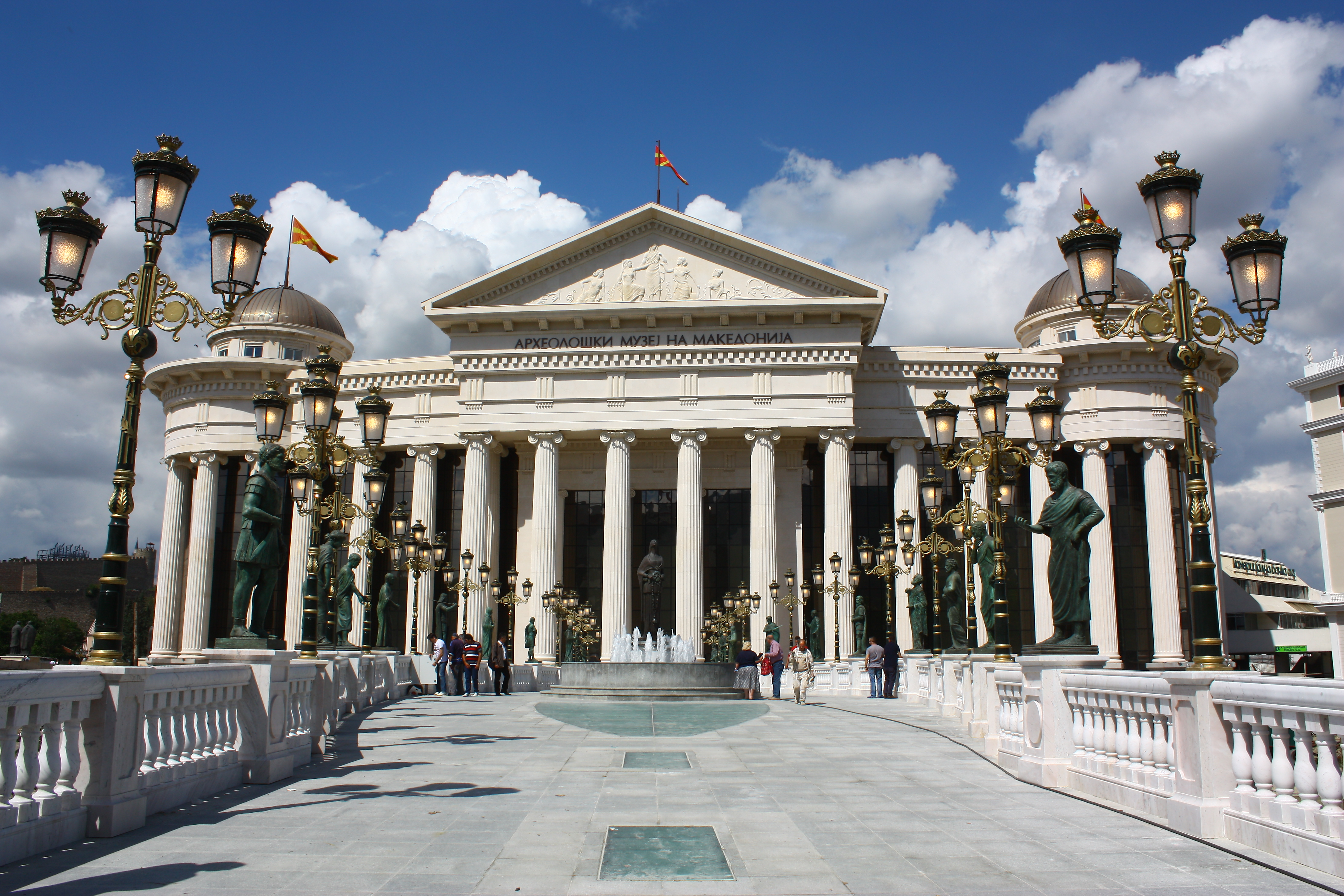 Archeological Museum of Macedonia in Skopje This image is uploaded as part of the picture contest Wiki Loves Cultural Heritage in Macedonia 2013. English | македонски | +/−